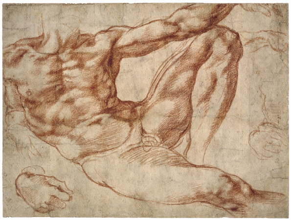 Study for Adam. Red chalk, 19,3 x 25,9 cm